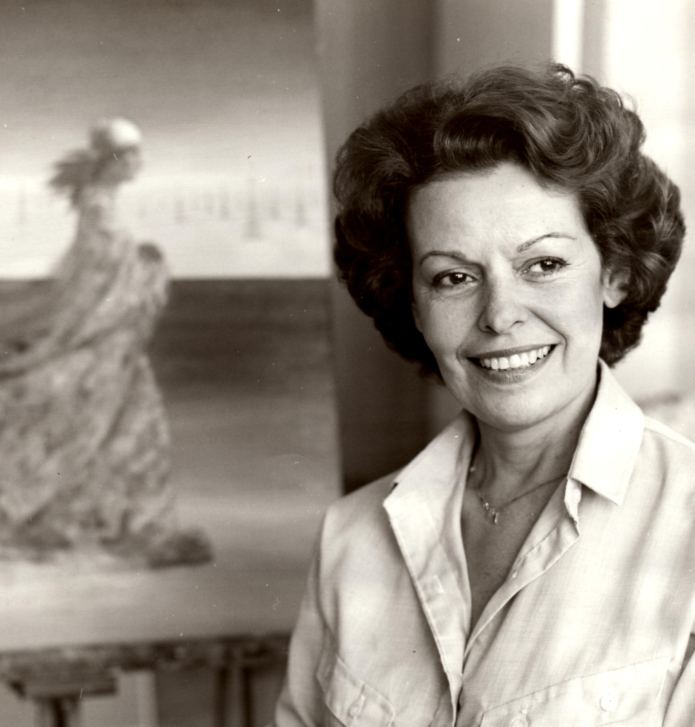 Exhibition at Galeria Aurora, Caracas, Venezuela, November 1975